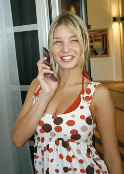 Adi Himelbloy